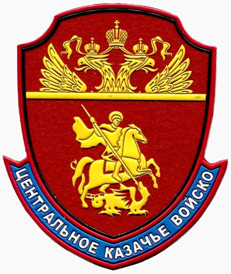 Центральное казачье войско (шеврон)